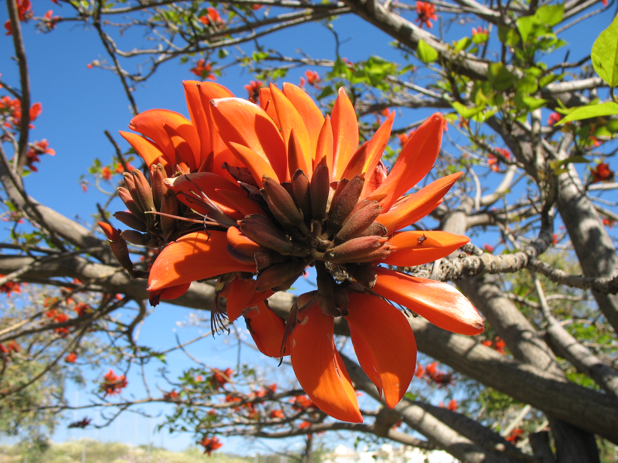 Inflorescence of the Coast Coral Tree IsiXhosa: umSintsi IsiZulu: umSinsi